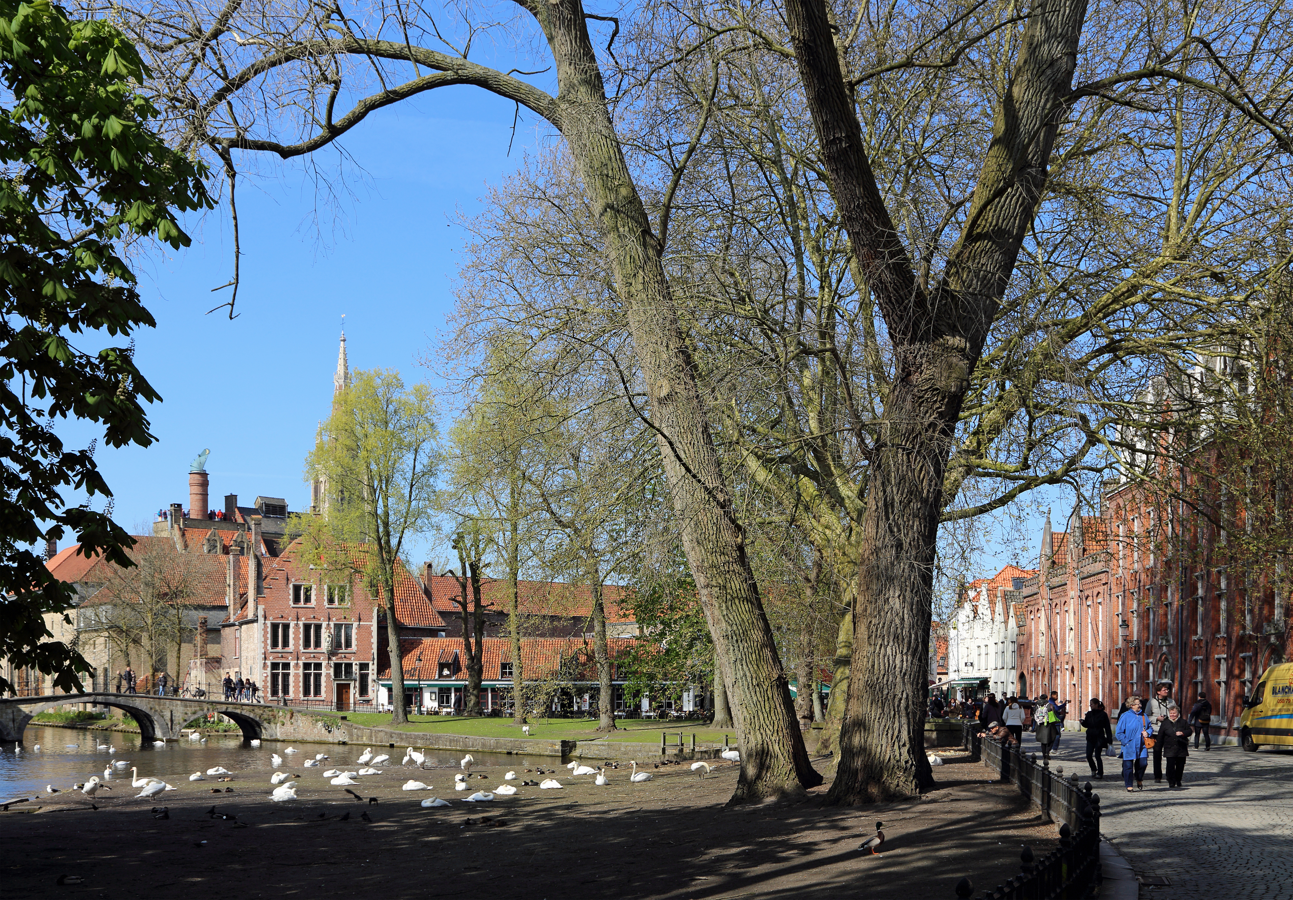 Bruges (Belgium): Wijngaardplein